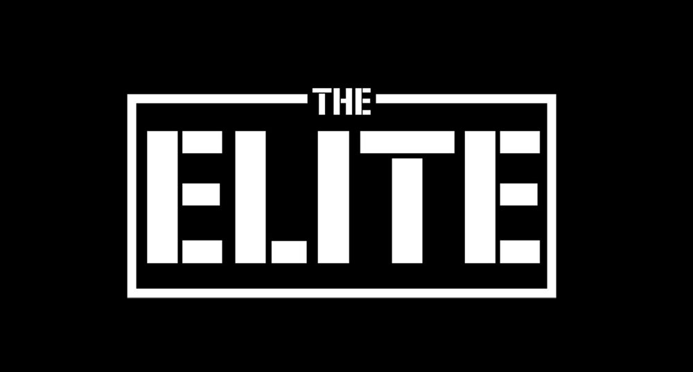 The Elite logo